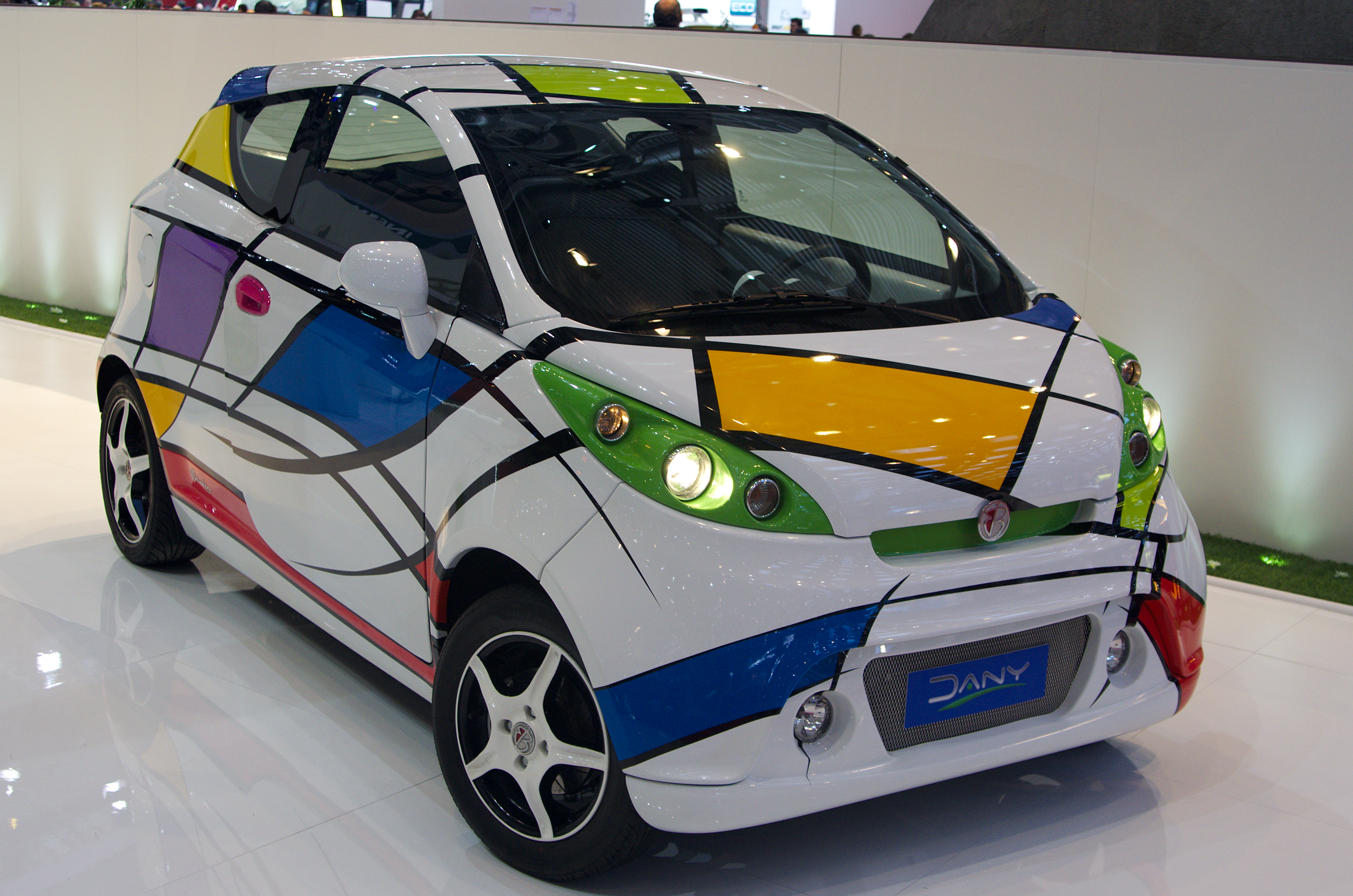 Geneva MotorShow 2013 - Belumbury Dany colours